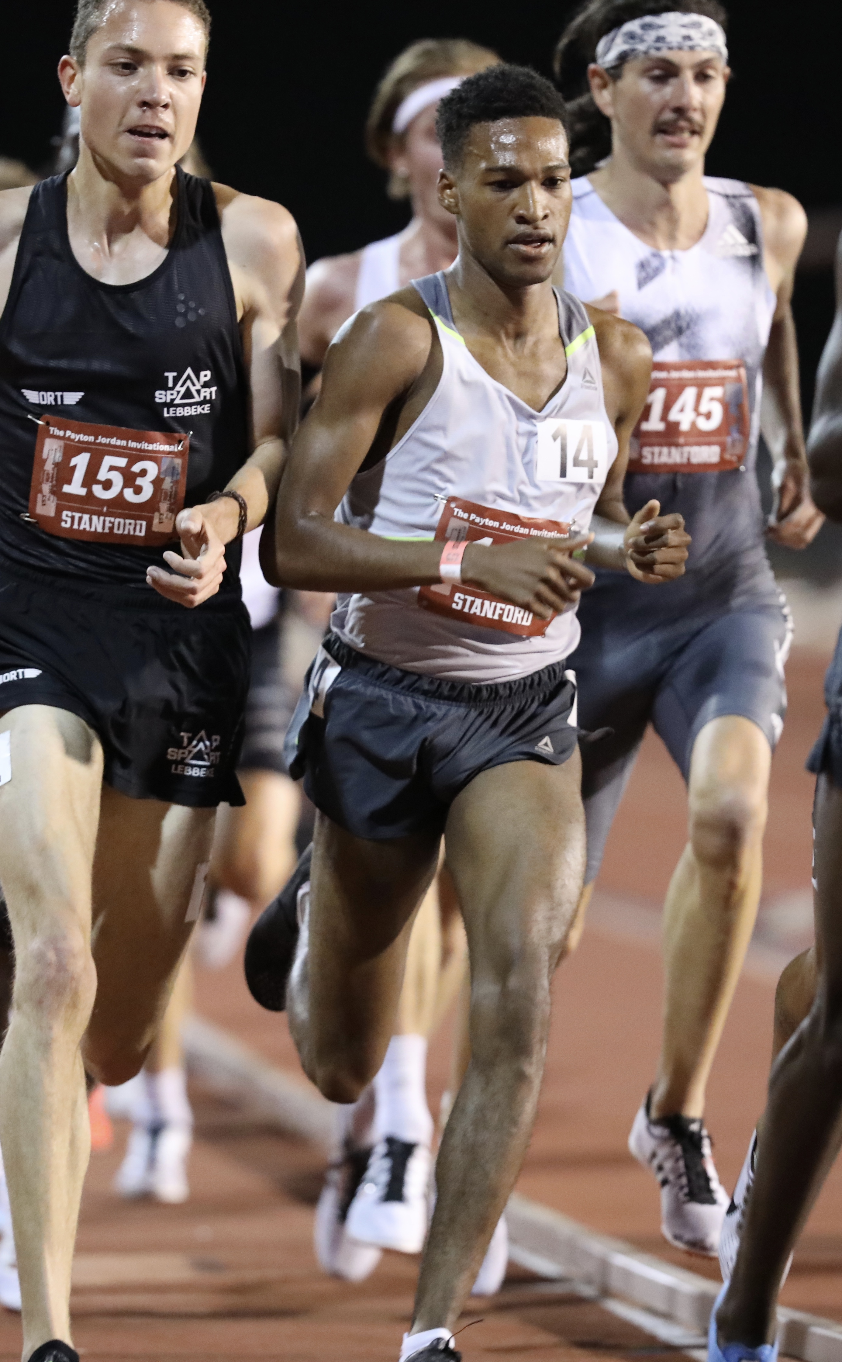 2019 Payton Jordan Invitational